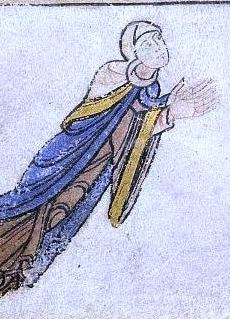 A noblewoman kneeling in front of Christ - most likely Adeliza of Louvain, widow of Henry I of England.